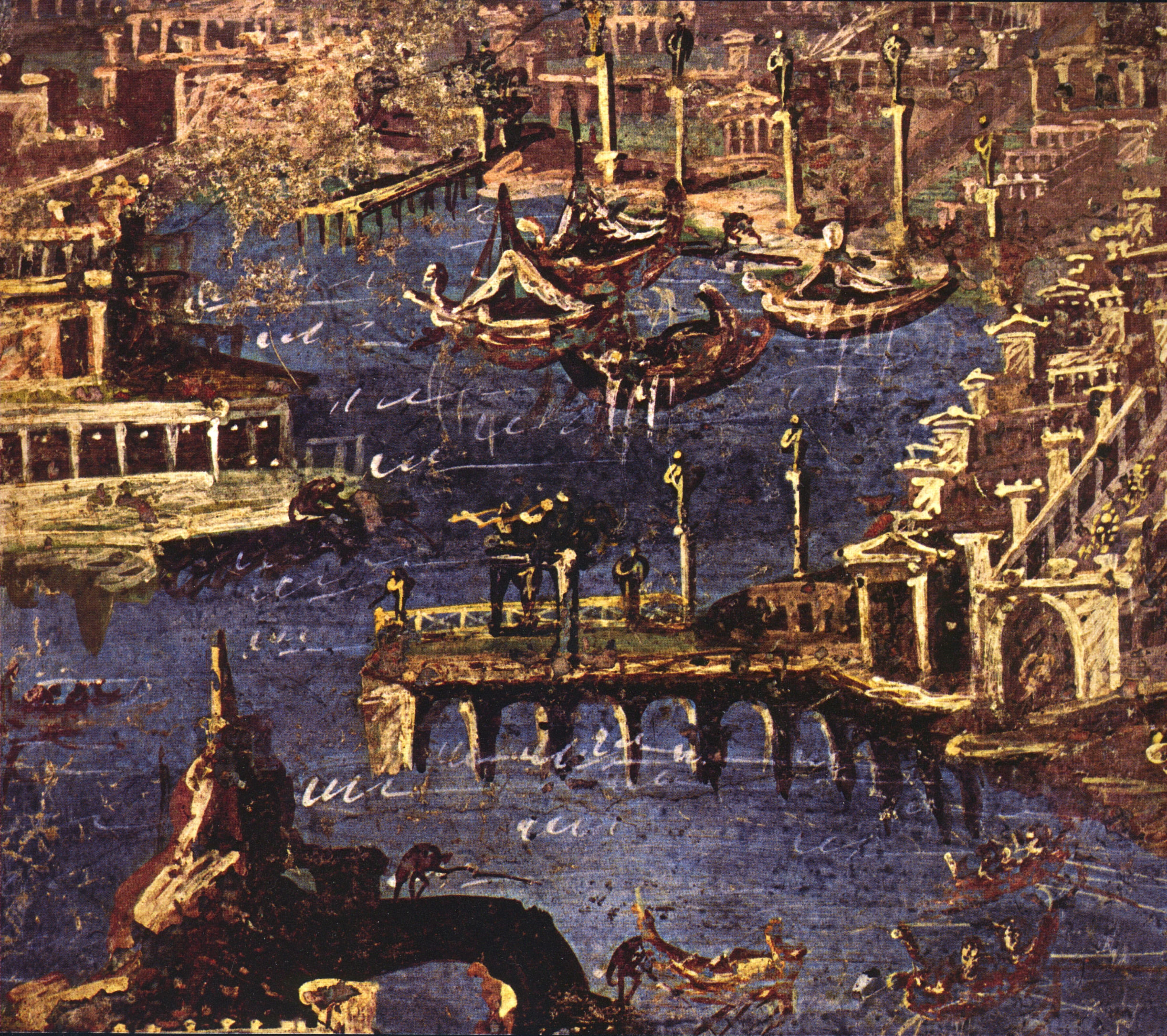 Port scene. Roman Fresco from Stabiae. Perhaps the harbour of Puteoli (ancient Pozzuoli). Museo Archeologico Nazionale (Naples)